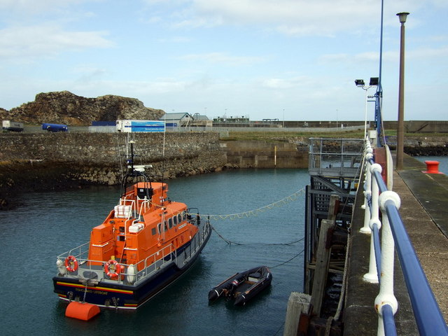 Fishguard lifeboat, Blue Peter VII This is the only Trent class lifeboat on the Welsh coast. The most up-to-date model, it was purchased for the RNLI via a Blue Peter children's TV appeal in 1994 and the presenters at the time attended its launch.